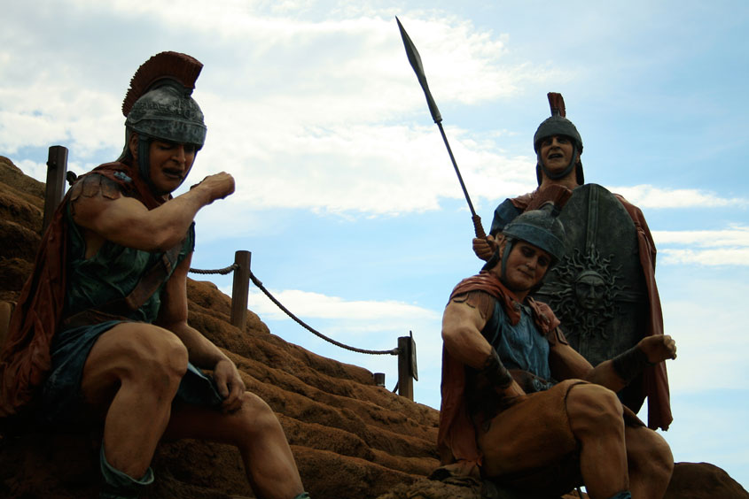 Representation of ancient Roman soldiers at rest